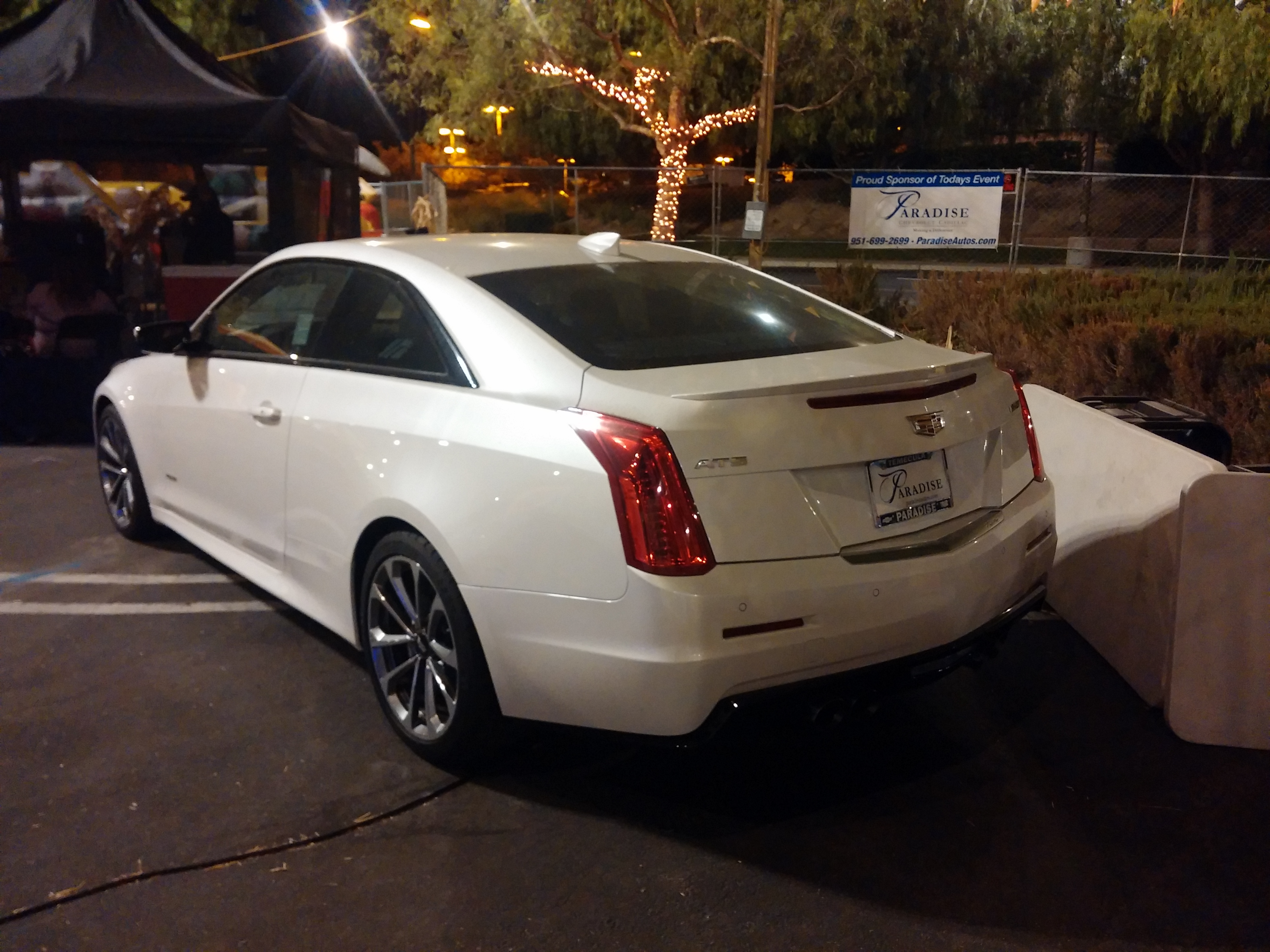 2016 Cadillac ATS Coupe. Back View